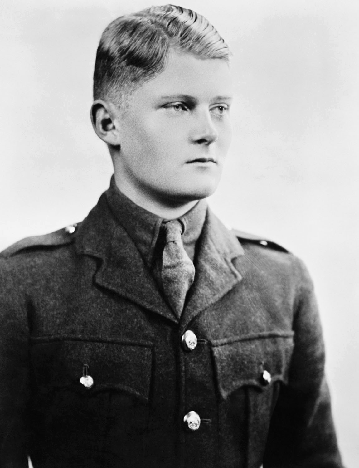 Photograph of Alastair Arthur, Earl of MacDuff